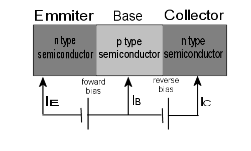 NPN BJT transistor